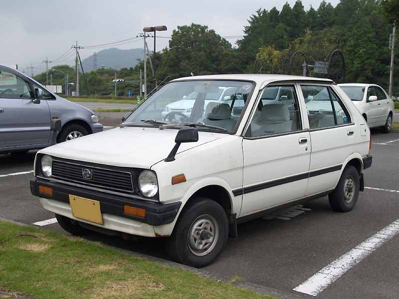 Second generation Subaru Rex five door hatchback